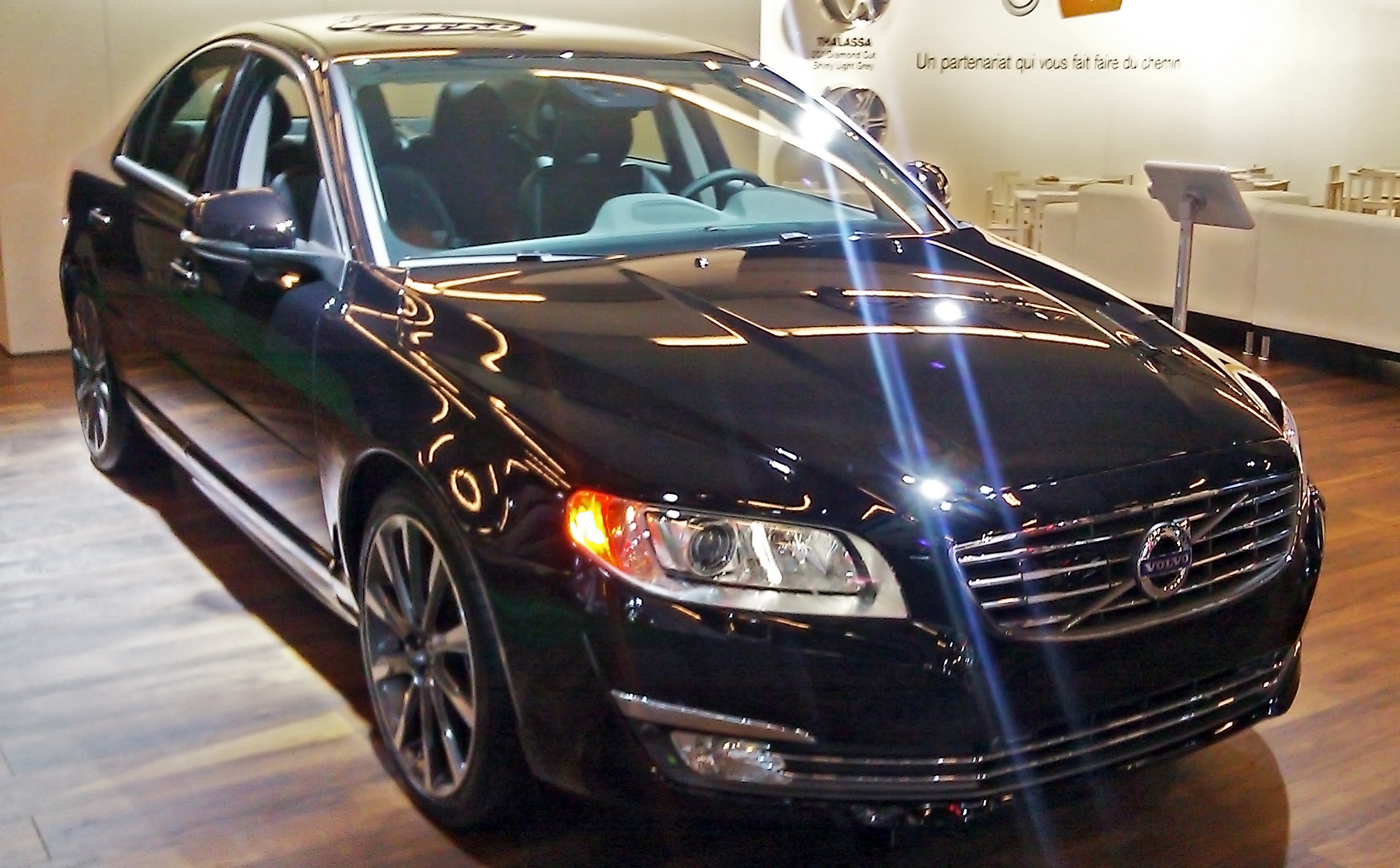 2014 Volvo S80 photographed in Montreal, Quebec, Canada at the 2014 Montreal International Auto Show.